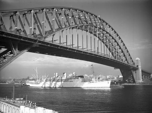 RMS Strathaird, beneath the Sydney Harbour Bridge